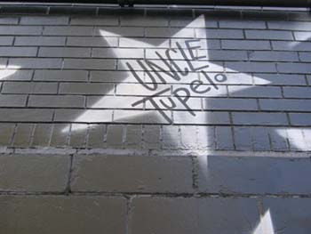 A star painted in a wall with Uncle Tupelo's name